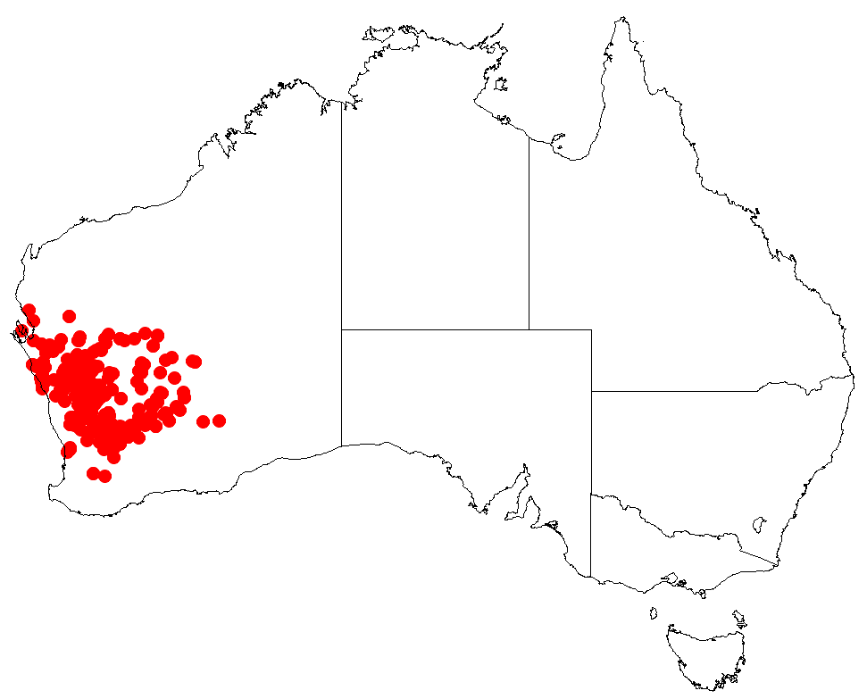 Hakea recurva Occurrence data downloaded from Australasian Virtual Herbarium on 22 November 2018 using